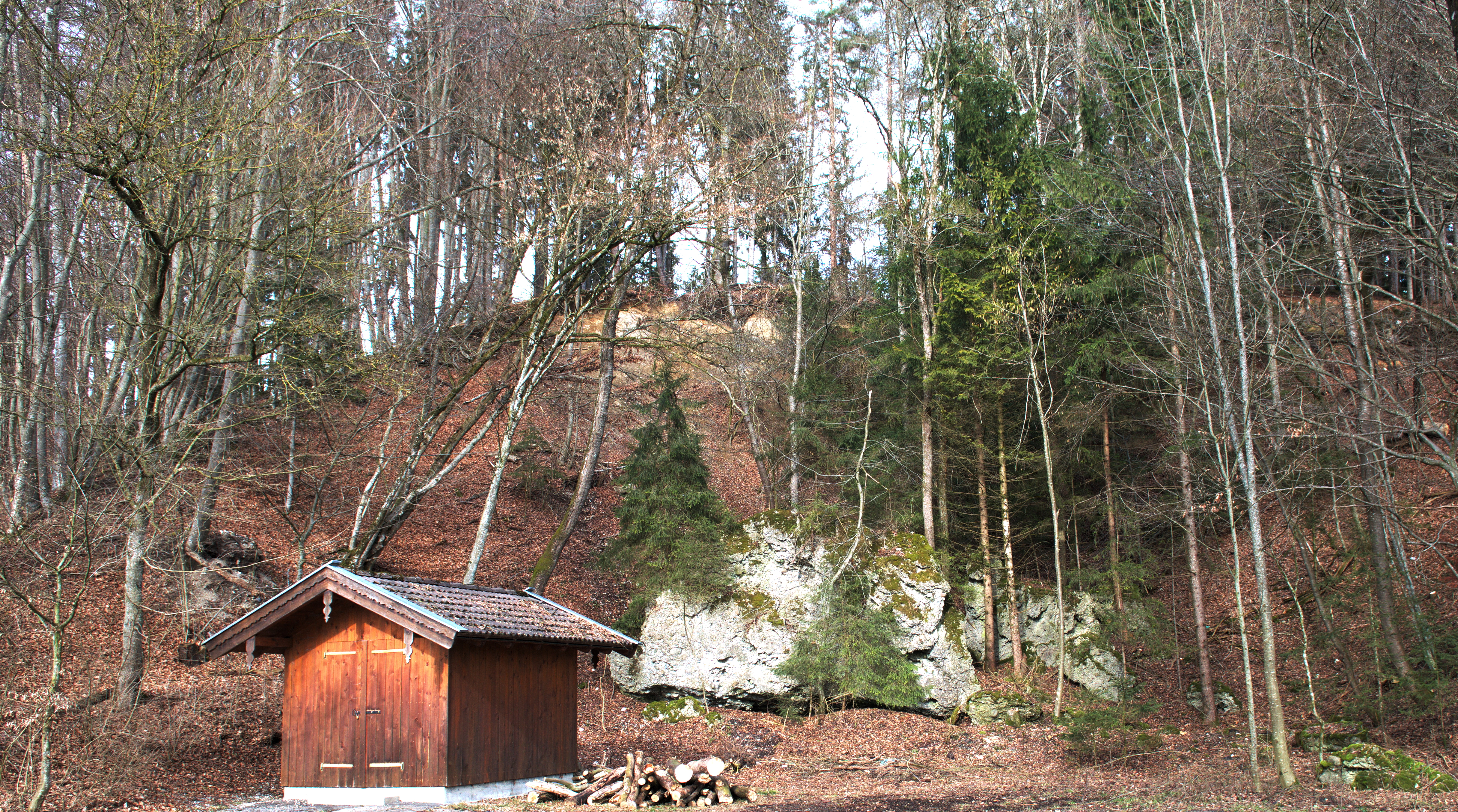 geotope, terminal moraine (Tarantium), Geotop Nummer: 189A003